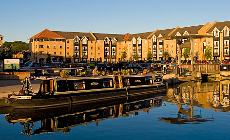 Shendish Manor Estate in Apsley Hemel Hempstead